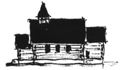 The second oldest church in Vikebygd, Norway. Probably build in 1682. Own drawing.